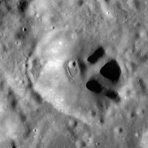 Crater Condorcet D on the Moon, on the northern shore of Mare Undarum. Its maximal size is 26 km. Photo by Lunar Reconnaissance Orbiter, made with Wide Angle Camera on 4 June 2011 from altitude 46 km. Sun elevation is 19.4°. Width of the photo is 35 km, north is approximately up.